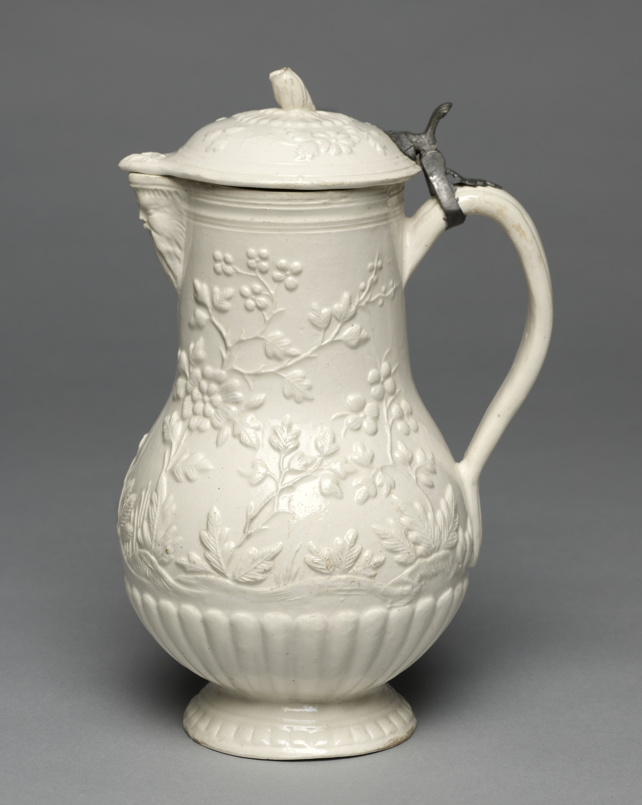 Cream colored earthenware was introduced by Wedgwood in the 1760s. He exported it to the continent, where it was quickly imitated. In France the ware was known as faience fine and the Pont-aux-Choux factory in Paris was the most famous manufacturuer of such wares. Cream ware was harder and thus more duable than traditional faience.